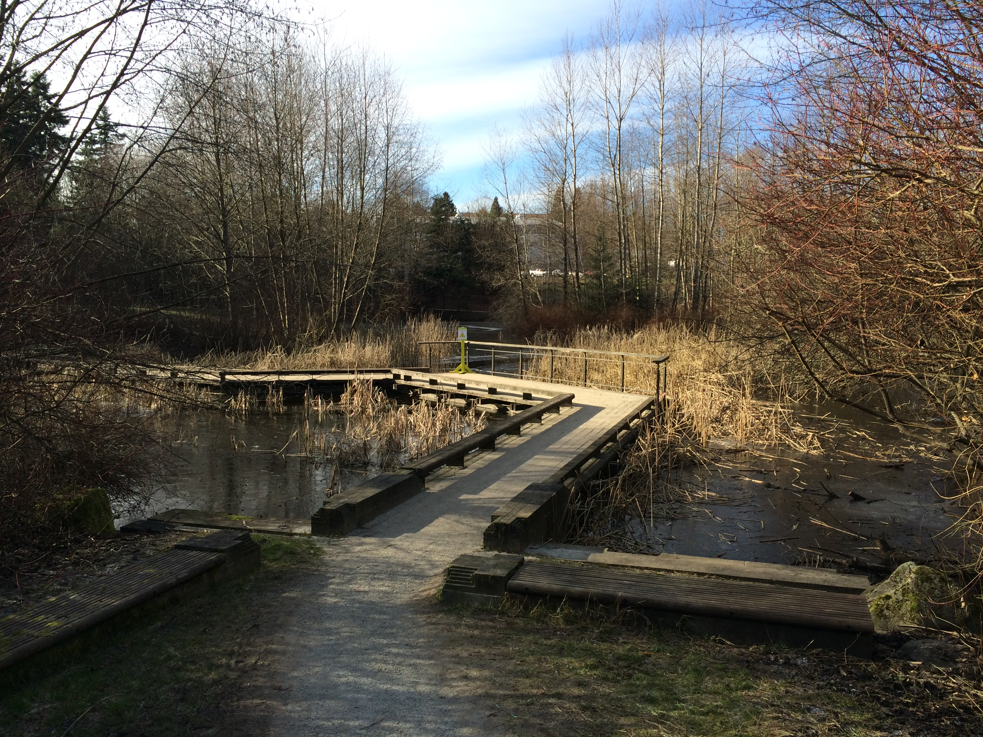 the sanctuary